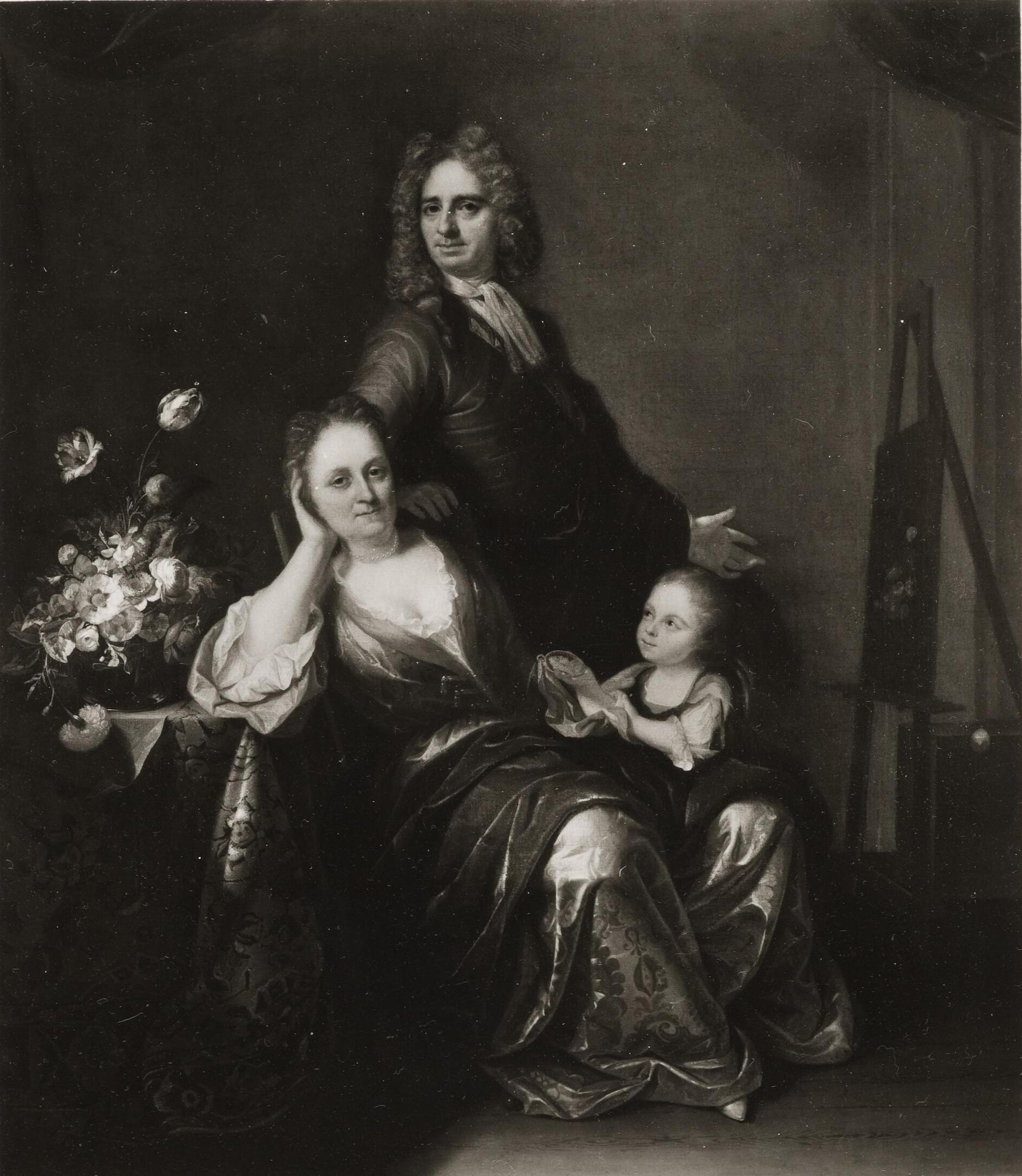 Family portrait with flower still-life in the making; Flowers shown once on the table and again on the easel. Portraits by Juriaen, flowers by Rachel. Child is probably daughter Rachel who died in 1718. This image is available from the Netherlands Institute for Art Historyunder digital ID 228715. This tag does not indicate the copyright status of the attached work. A normal copyright tag is still required. See Commons:Licensing.